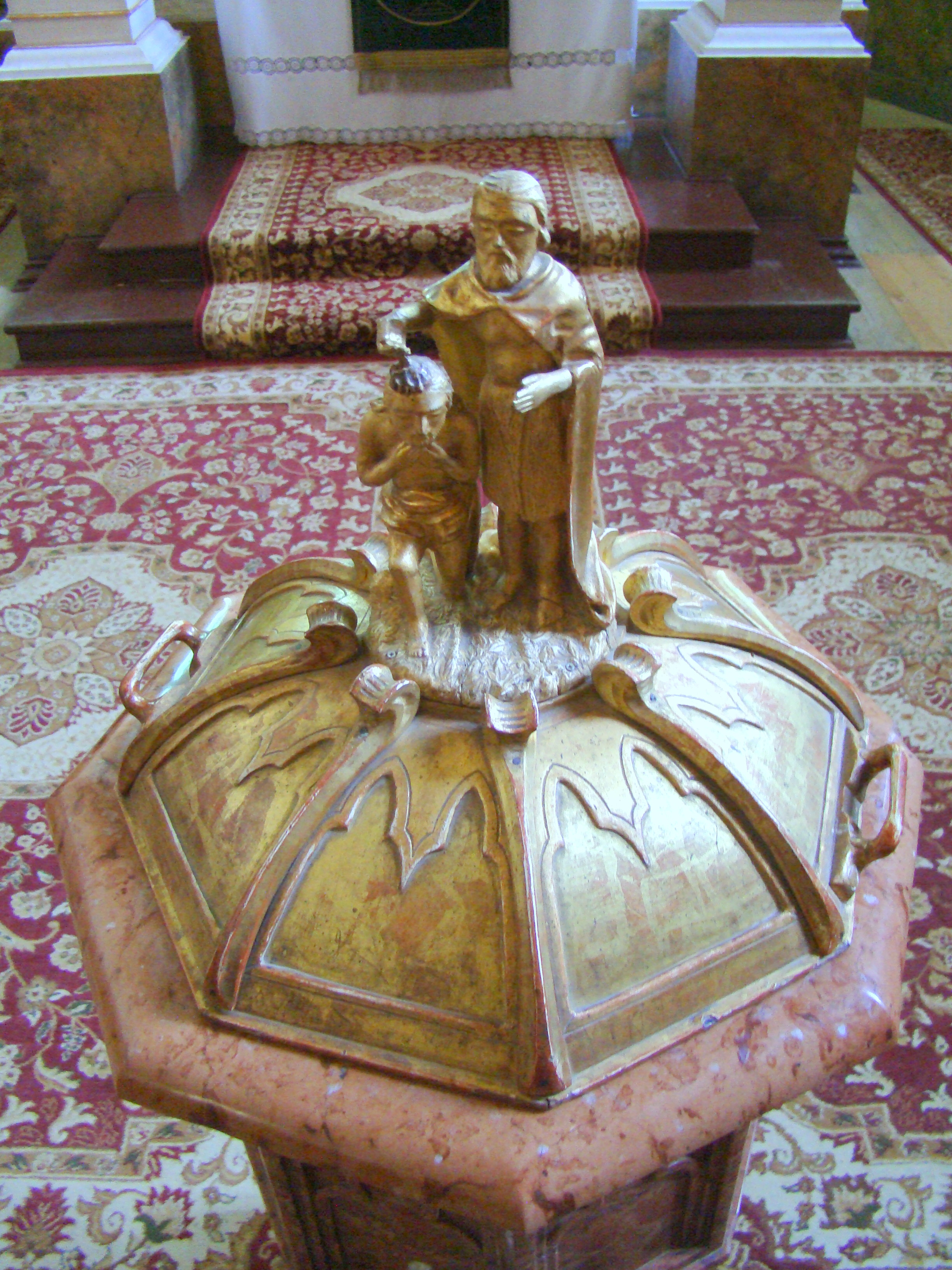 Lutheran church in Reghin, Mureş county, Romania